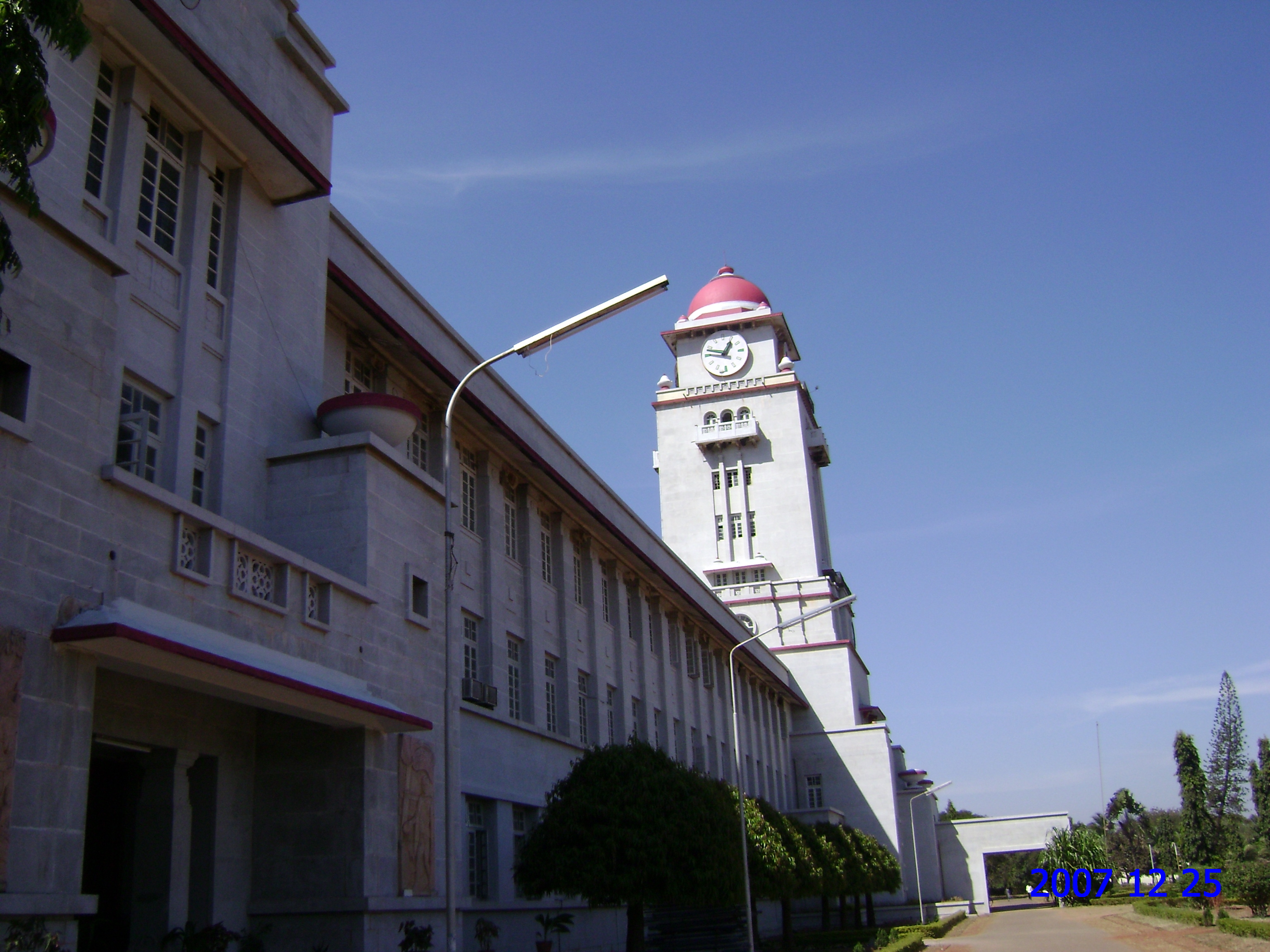 Karnatak University